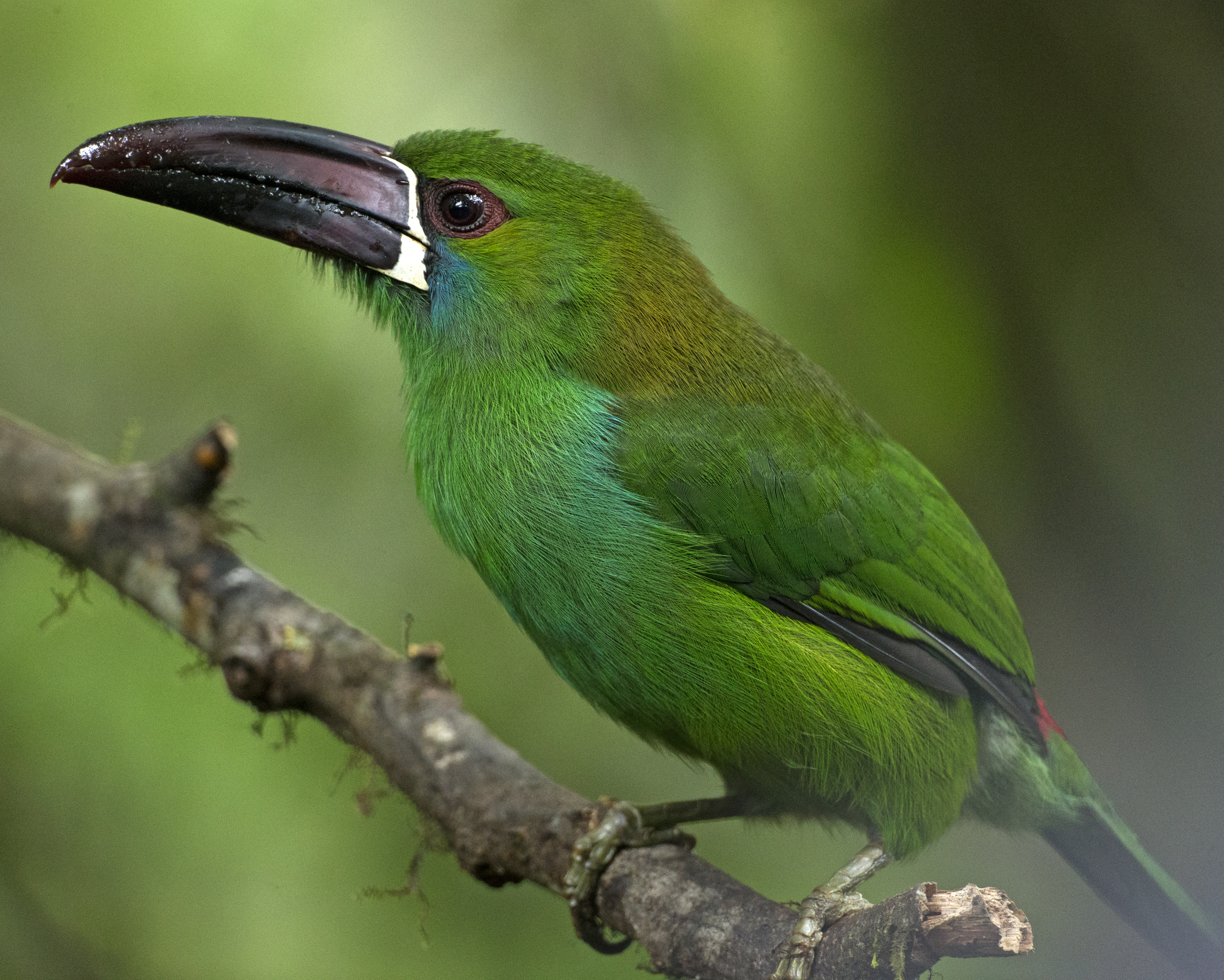 Crimson-rumped Toucanet Aulacorhynchus haematopygus Aulacorhynchus haematopygus sexnotatus Tandayapa, near Quito, Ecuador, 10th. August 2014 CF2P3297